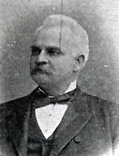 Charles H. Page, US Representative from Rhode Island